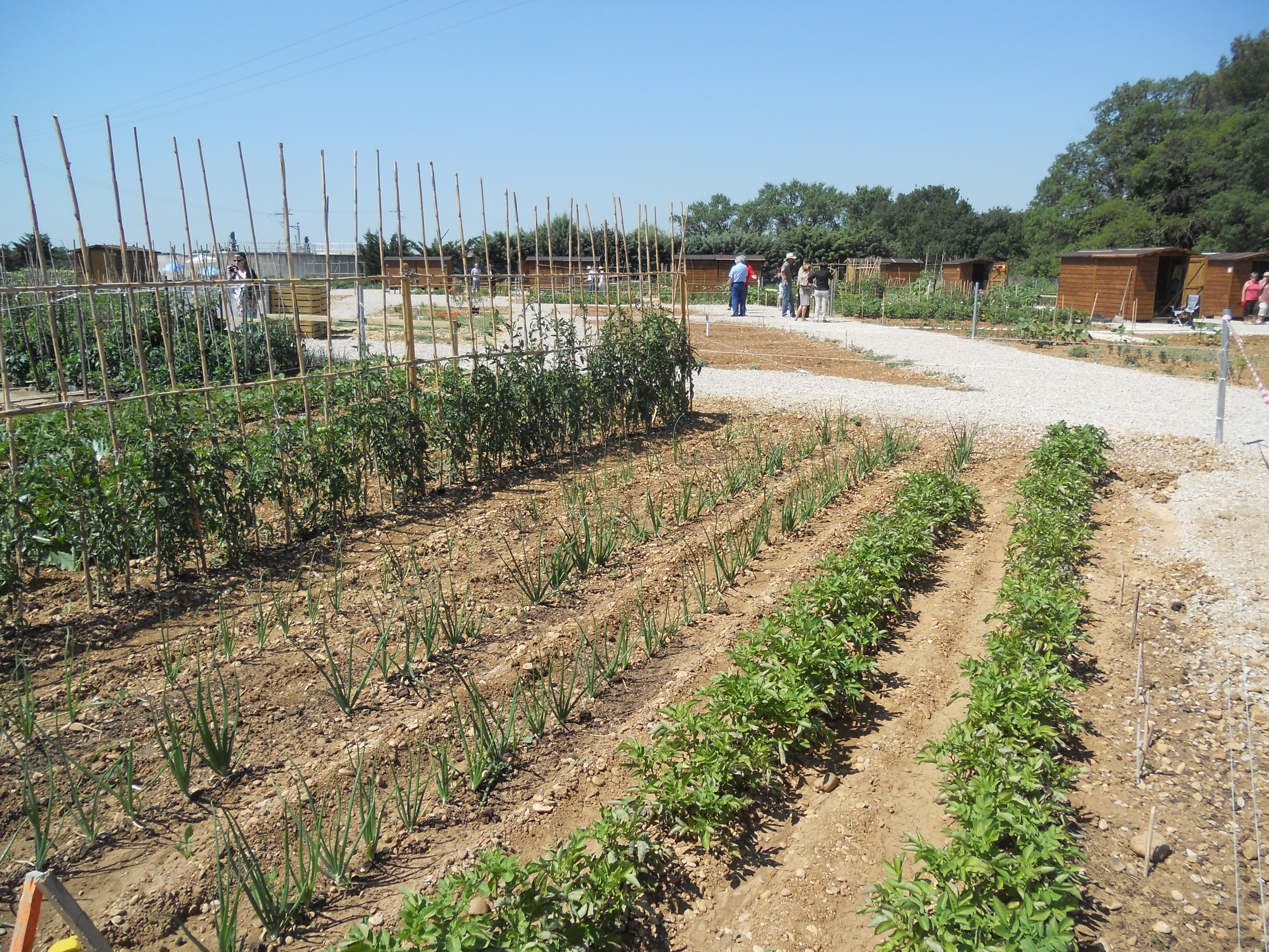 Allotments at Saint-Martin-de-Crau